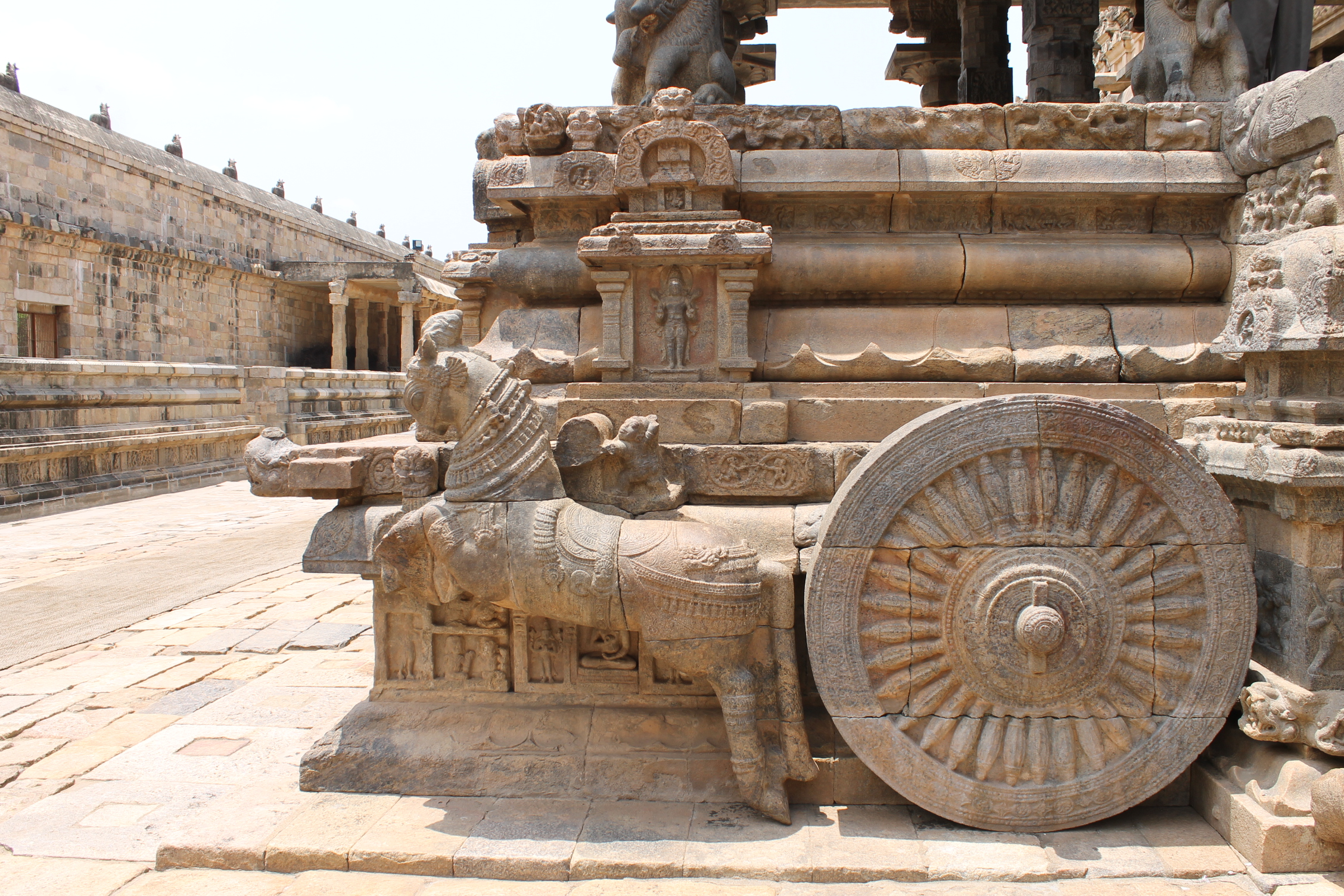 "Amazing architectural design of Airavatesvara Temple". Location: Chatram, Darasuram, near Kumbakonam, Thanjavur District, Tamil Nadu, India.